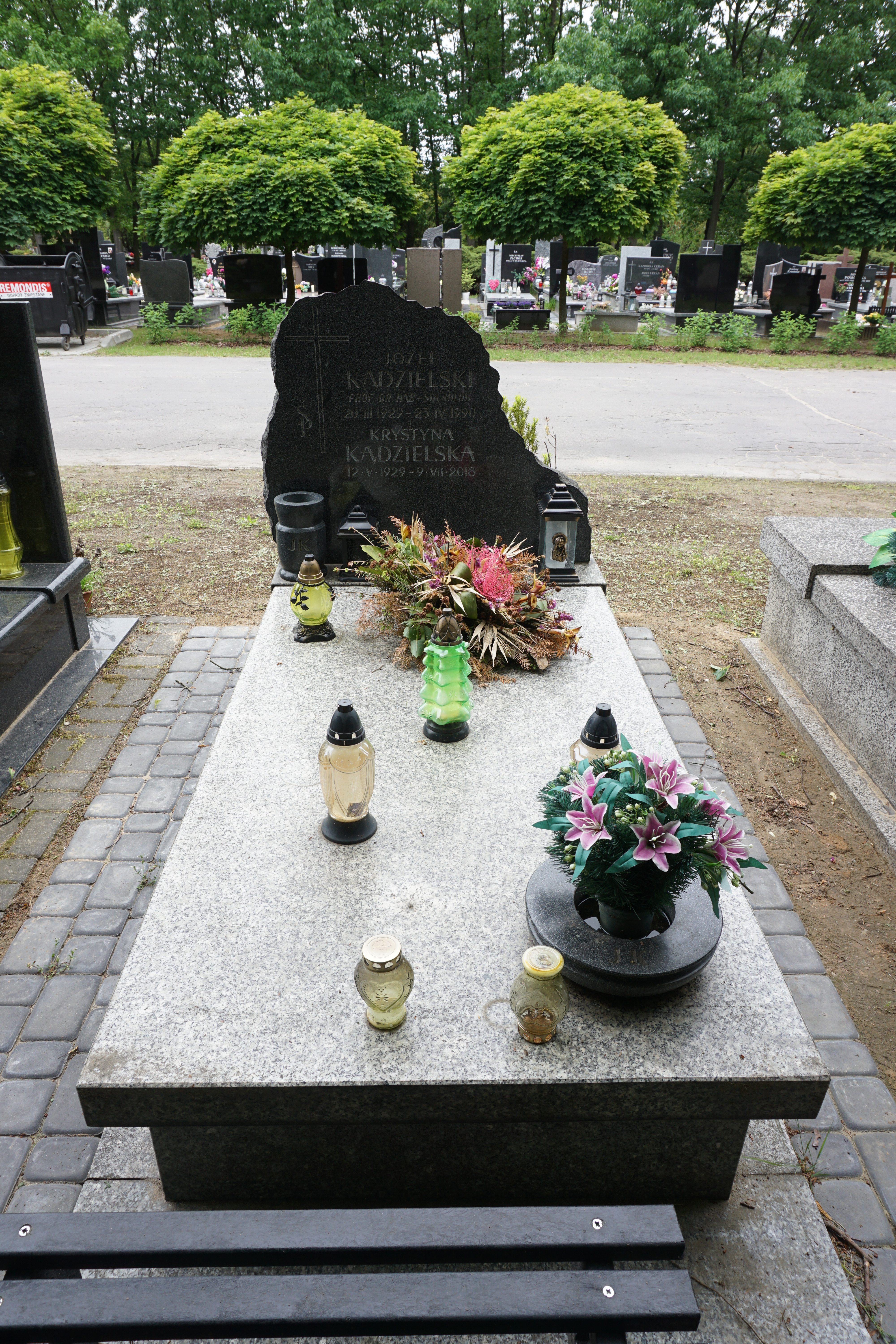 The grave of Józef Kądzielski at the North Municipal Cemetery in Warsaw (section E-XVII-1, row 2, grave 18)